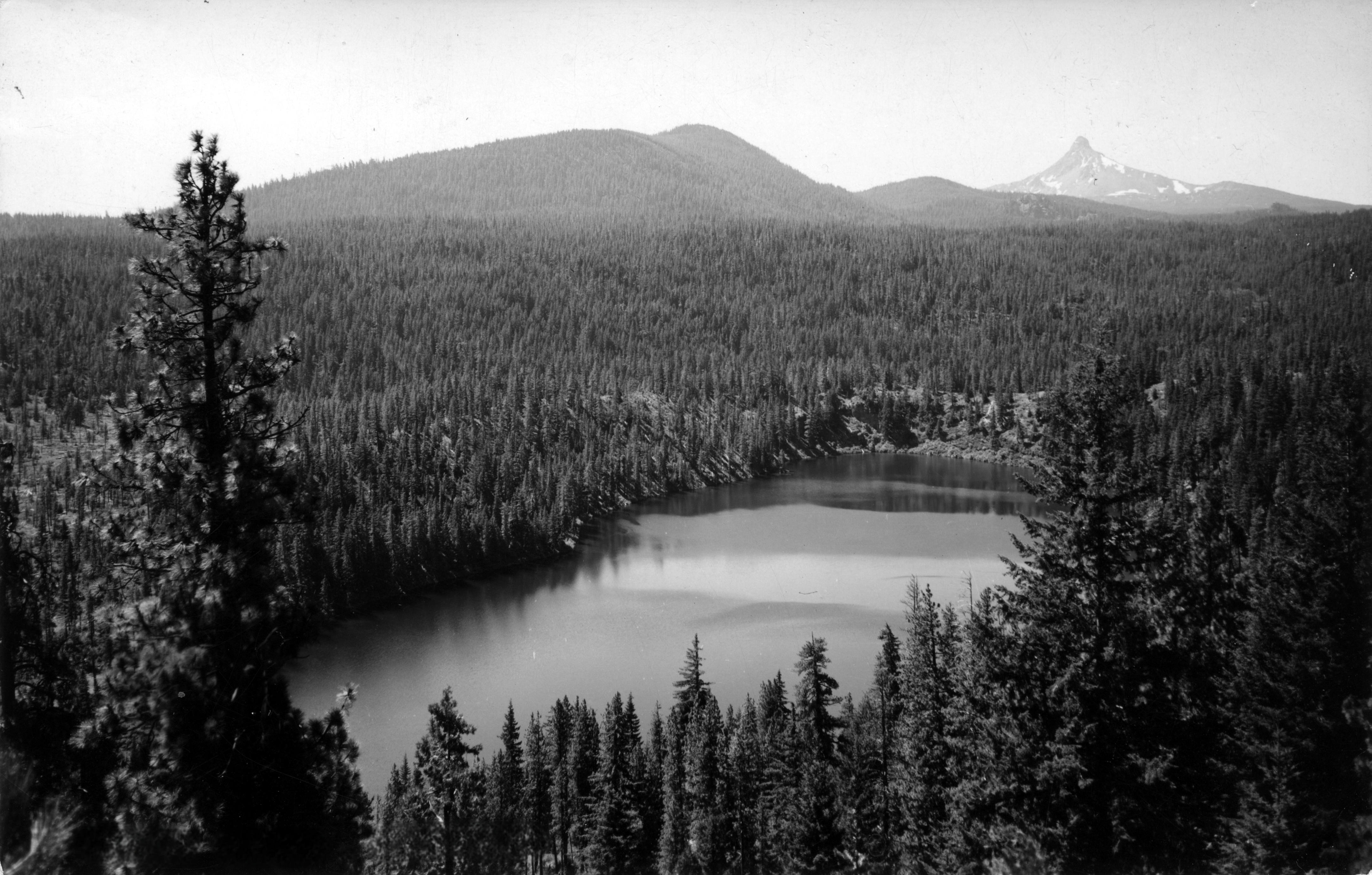 Original Collection: Gerald W. Williams Collection Item Number: WilliamsG_CO_Blue Lake